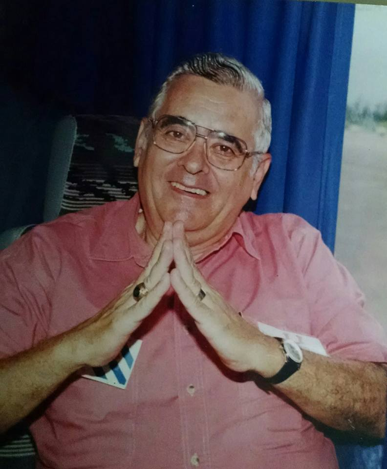 Manuel Roberto Melendez del Valle Bischitz